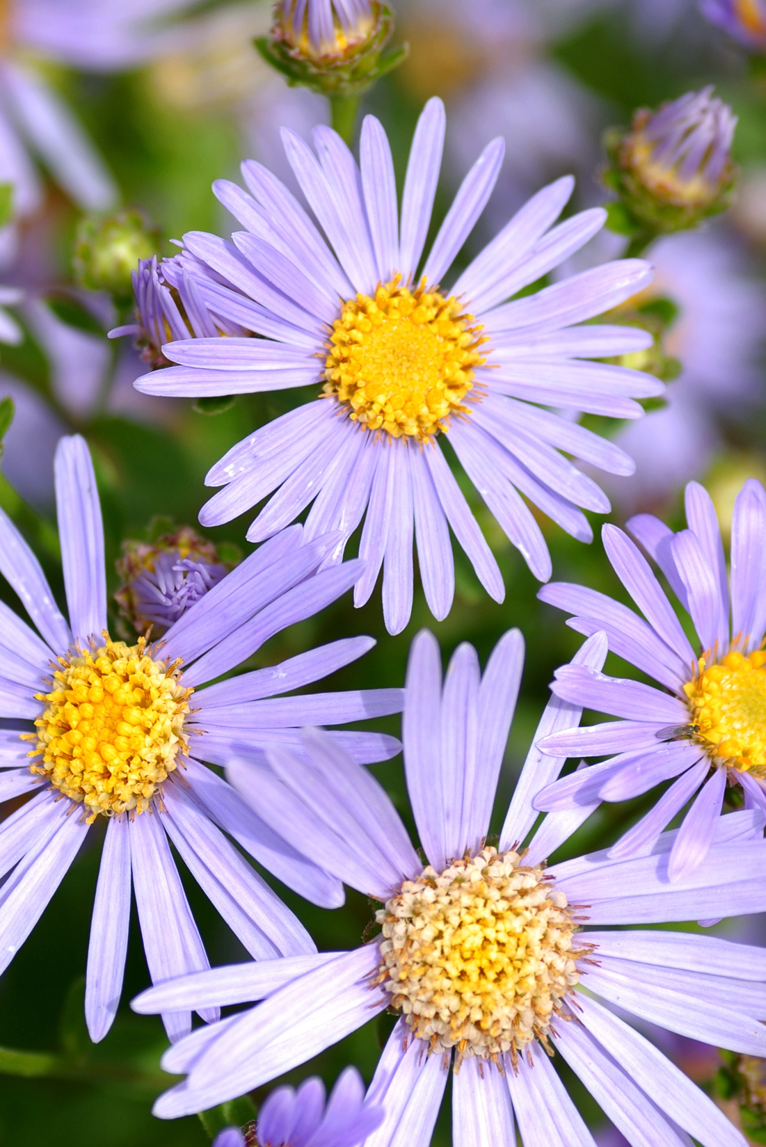 This image shows a European Michaelmas Daisy (Aster amellus)